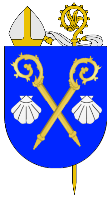 Coat of arms Sint-Niklaasabdij